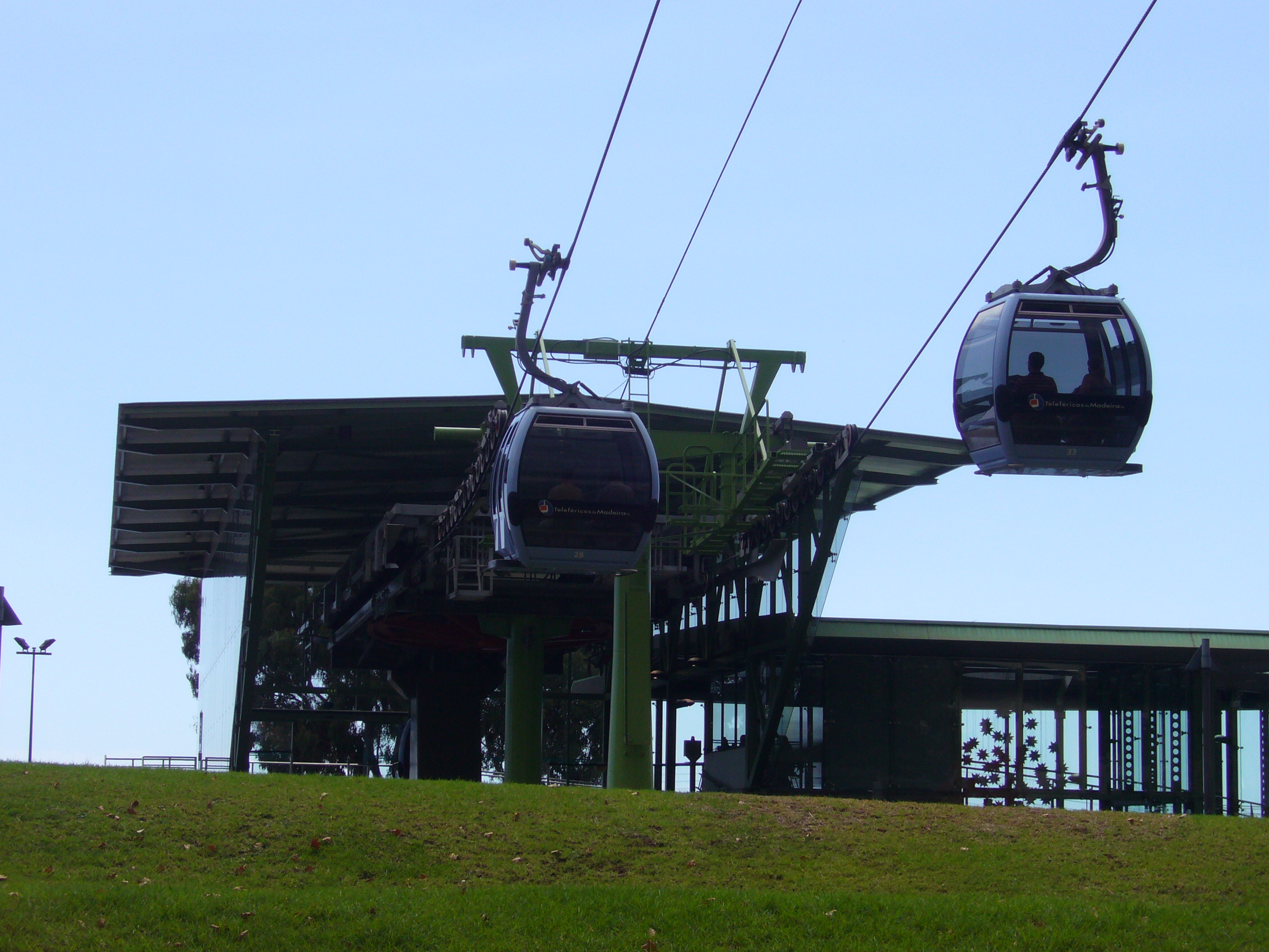 Lower station of the cableway Teleferico da Madeira in Funchal